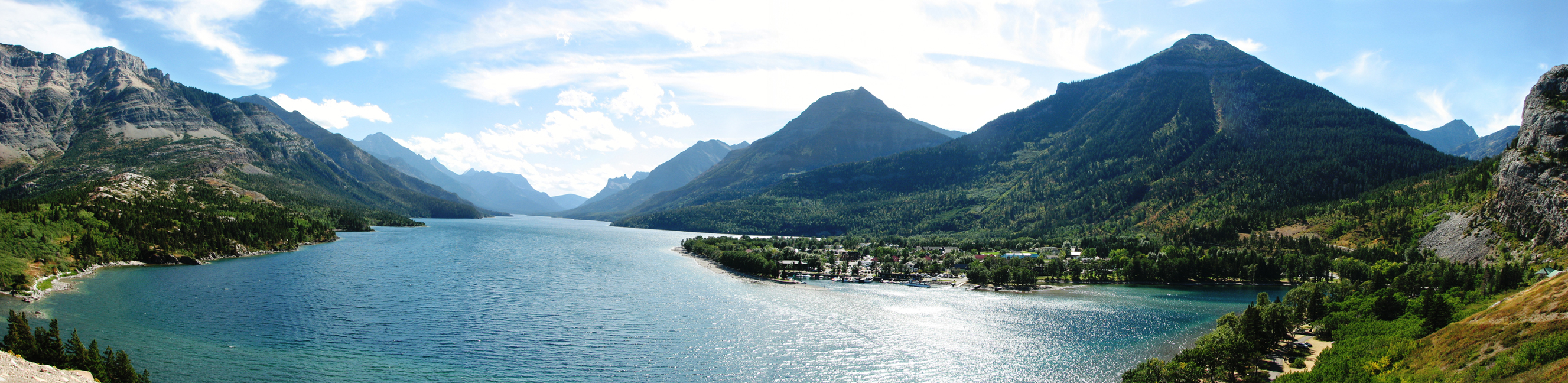 Waterton National Park